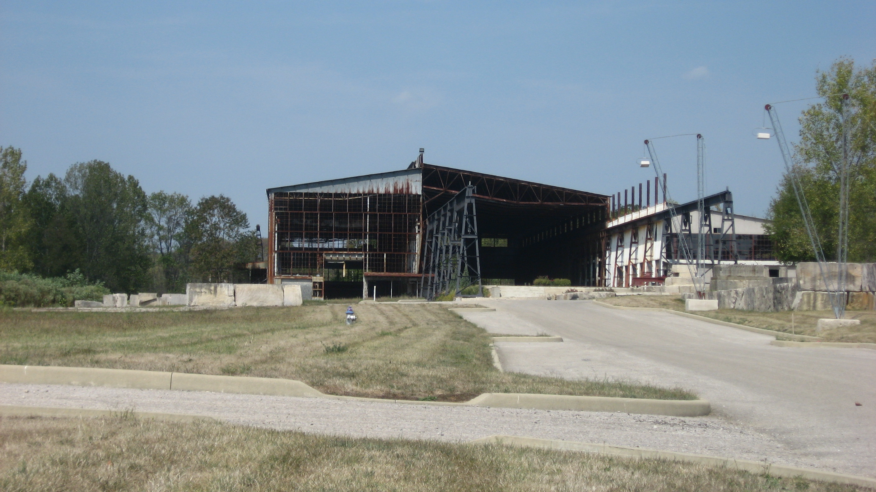 Front of the Woolery Stone Company plant, located at 2295 W. Tapp Road in Bloomington, Indiana, United States. Built in 1948, it is listed on the National Register of Historic Places.